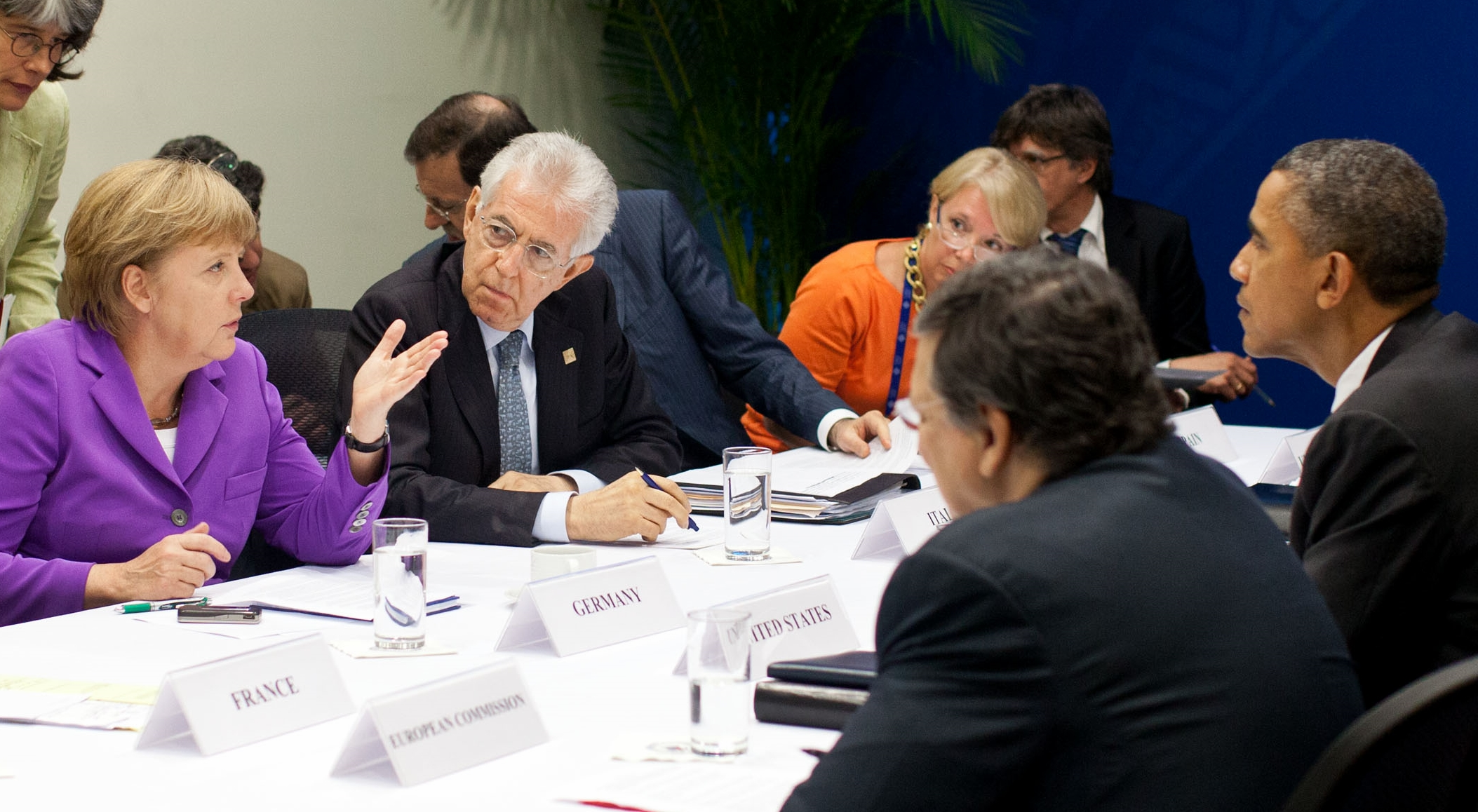 United States President Barack Obama participates in a meeting with Eurozone leaders at the Los Cabos Convention Center in Los Cabos, Mexico on 19 June 2012. Seated, clockwise around the table from left, are: ... Chancellor Angela Merkel of Germany; Prime Minister Mario Monti of Italy ... Barack Obama; and José Manuel Barroso, President of the European Commission.